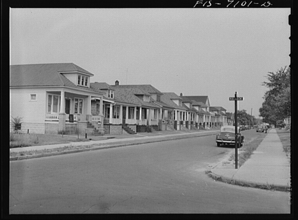 Detroit, Michigan. Houses in the Polish district